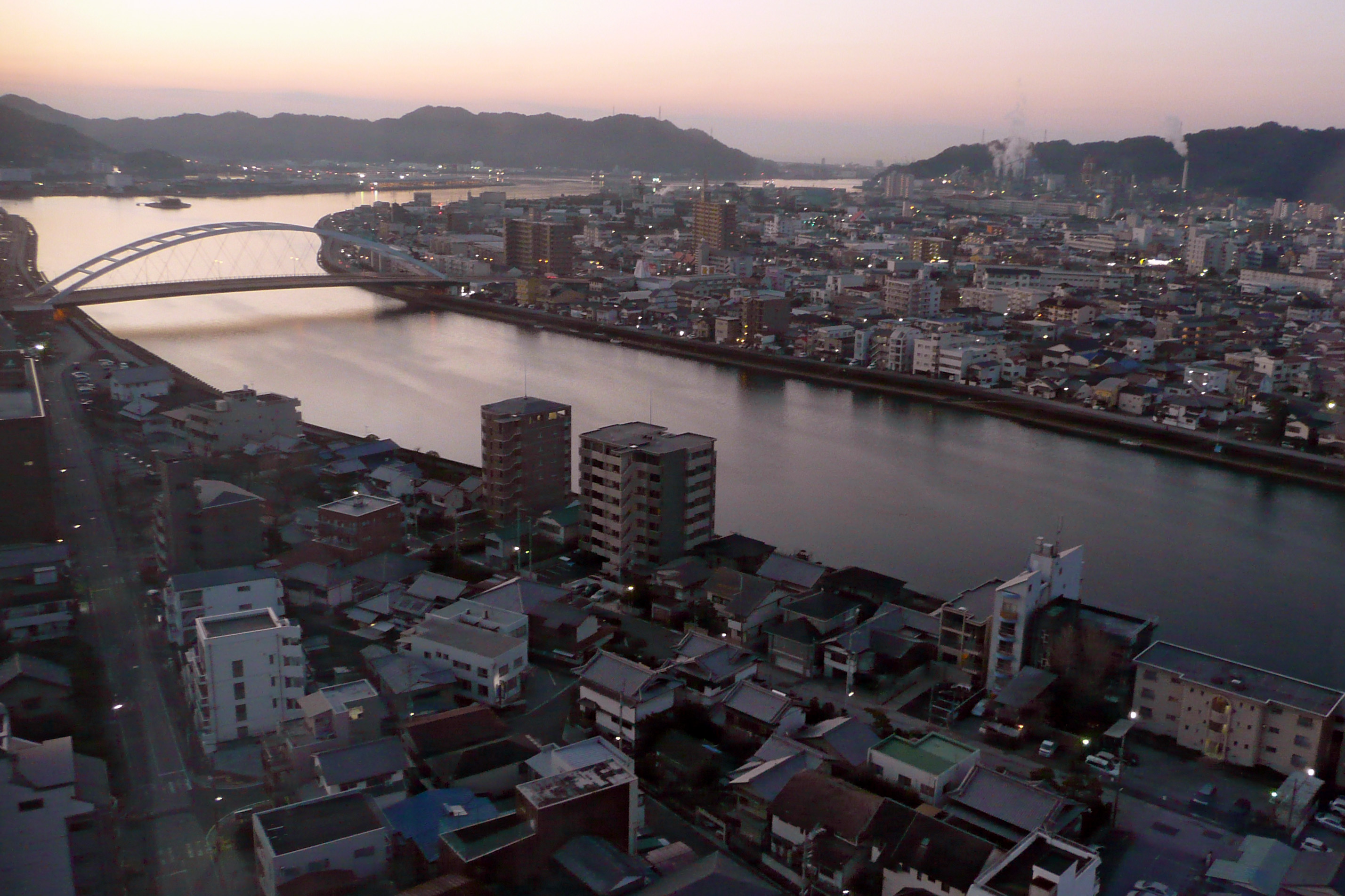 Kagami River at Kochi, Kochi prefecture, Japan